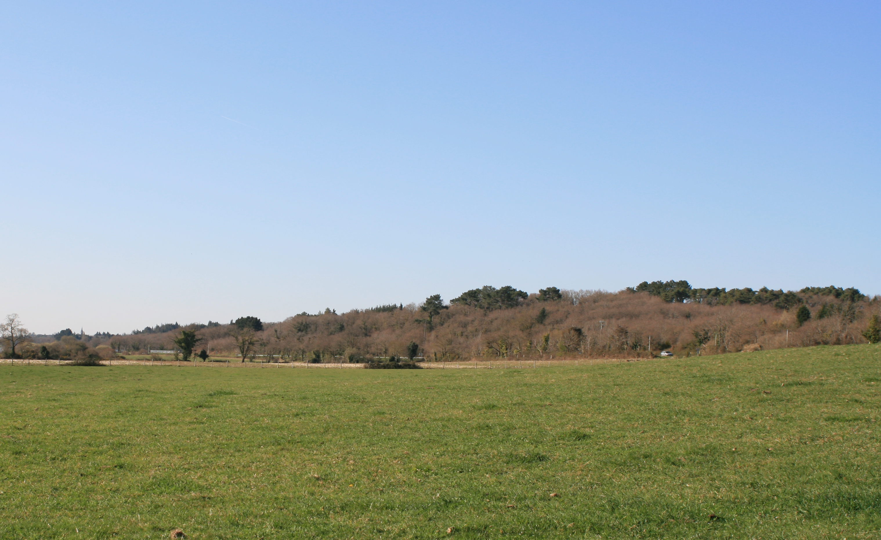 View of the Sillon de Bretagne in Savenay, France